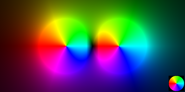 The magnitude and direction of an electric field generated by two equally charged, point-like particles.